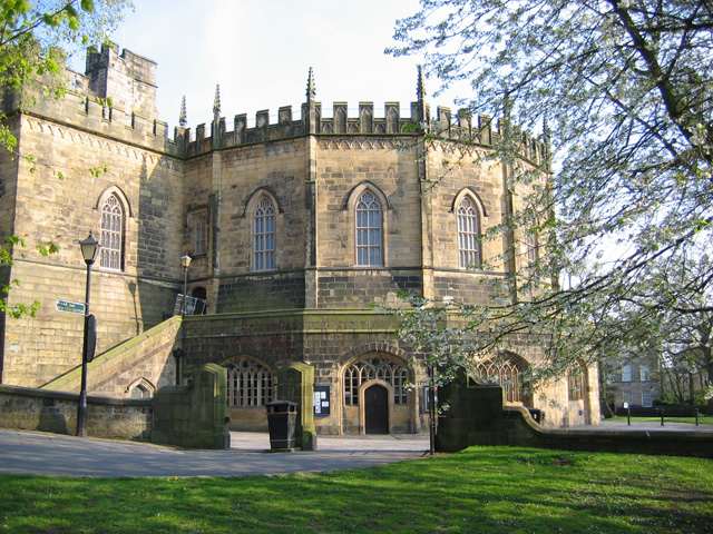 Shire Hall, Lancaster Castle The Shire Hall dates from the turn of the 19th century. It is still used as a court room, and contains a display of shields of the monarchs, the Constables of the Castle, and the High Sheriffs of Lancashire.